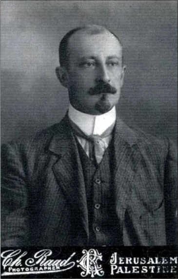 Photograph of Valter Henrik Juvelius.